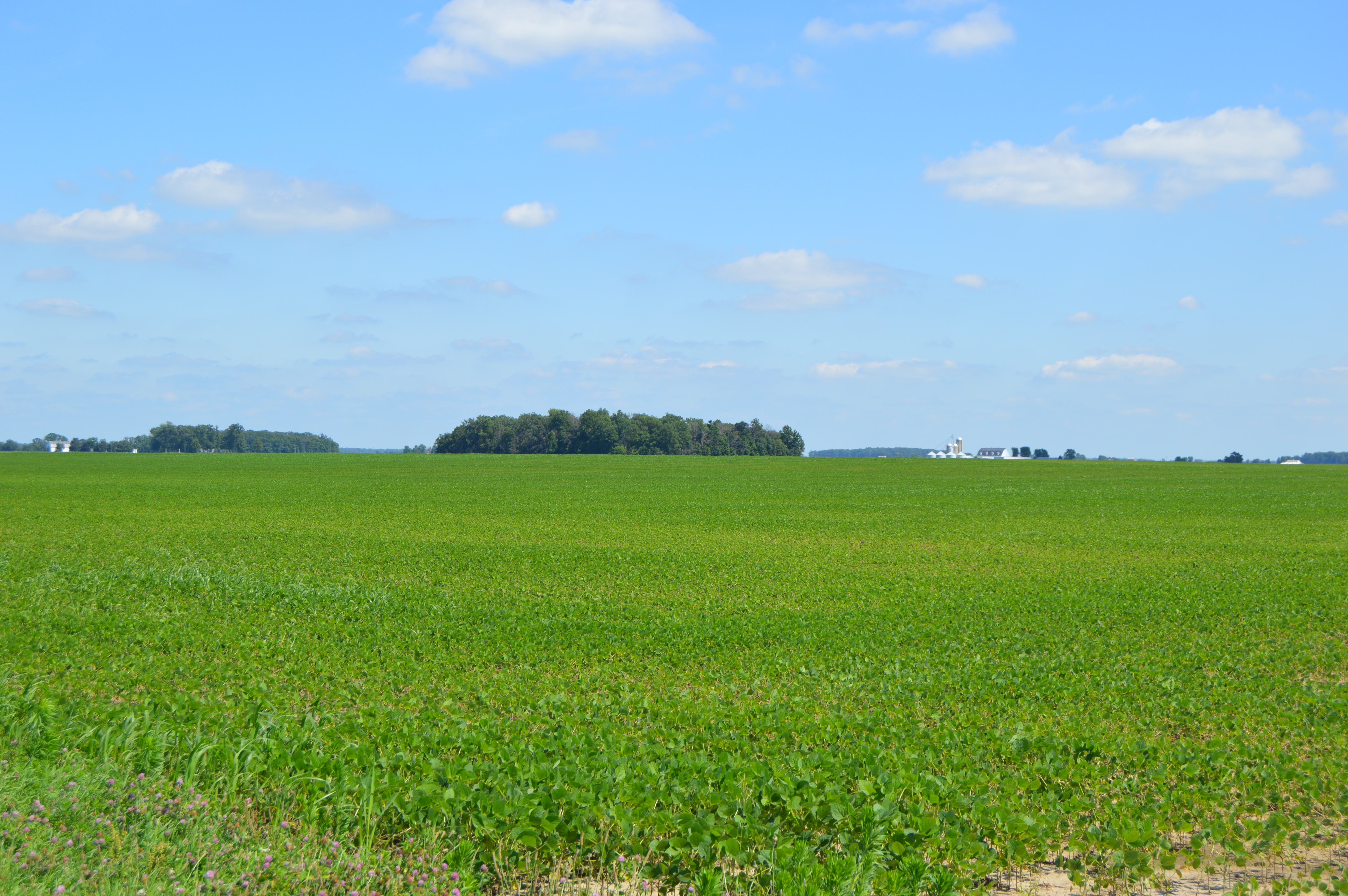 Soybean fields in far northern Union Township, Mercer County, Ohio, United States, seen looking southeast from Mercer Van Wert County Line Road east of Sands Road.